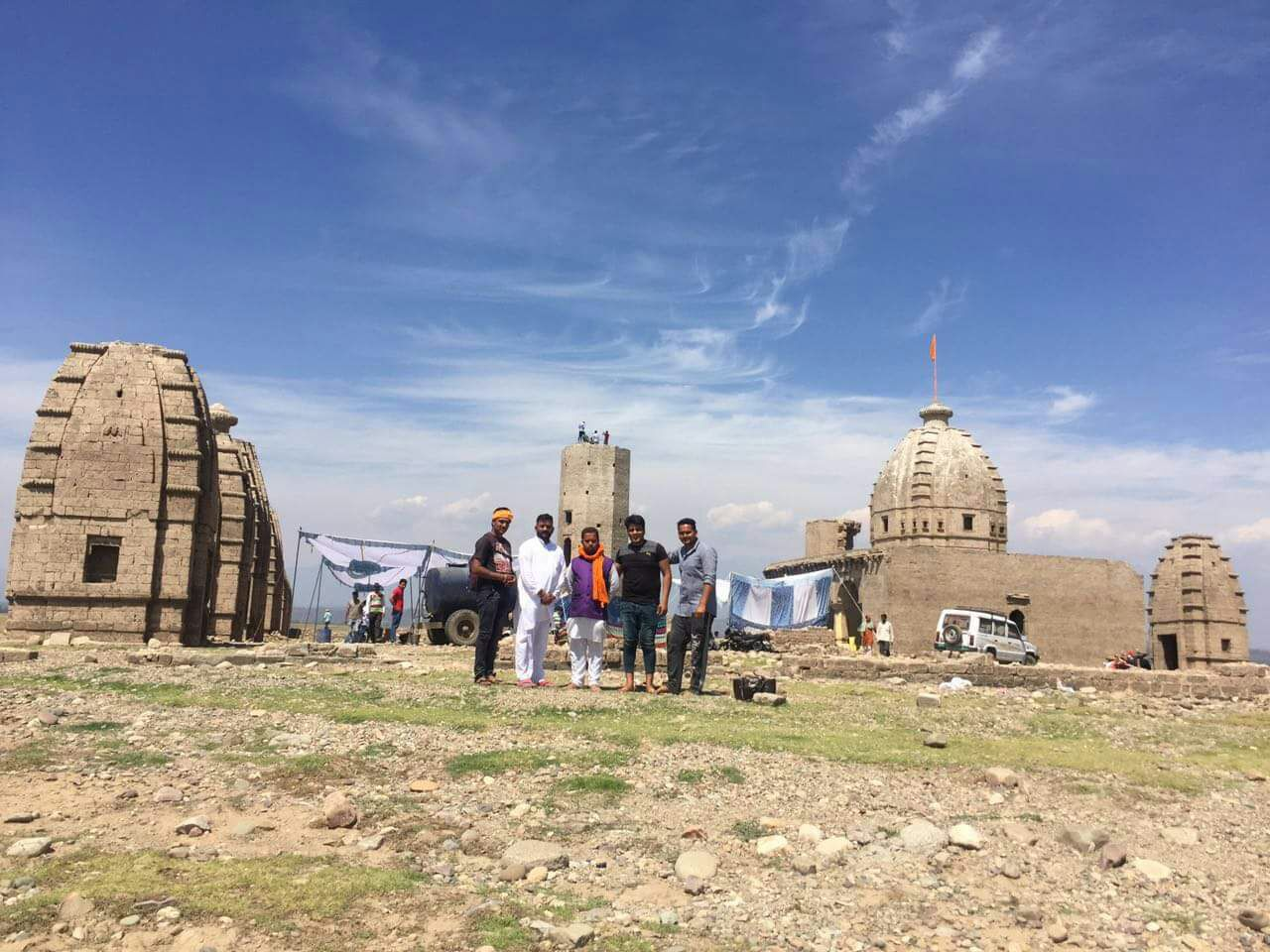 cluster of temples in the Kangra district